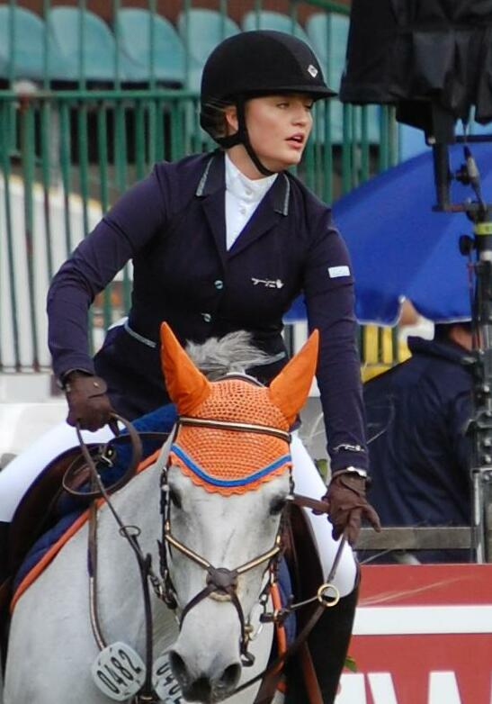 Luna Marie Schweiger with Tikeur, German show jumping and dressage derby, Hamburg 2015.